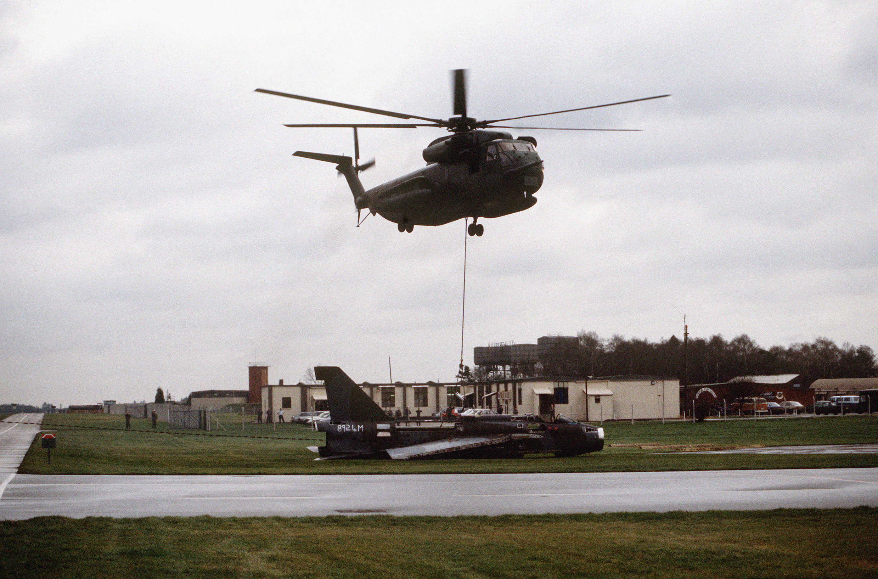 A U.S. Air Force Sikorsky HH-53C Super Jolly Green Giant helicopter from the 67th Aerospace Rescue and Recovery Squadron lifts a derelict former Royal Air Force BAC Lightning fighter at RAF Woodbridge, Suffolk (UK), on 18 December 1987.